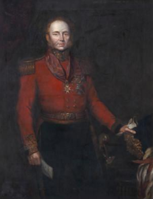 Portrait of Major-General John Alexander Dunlop Agnew Wallace